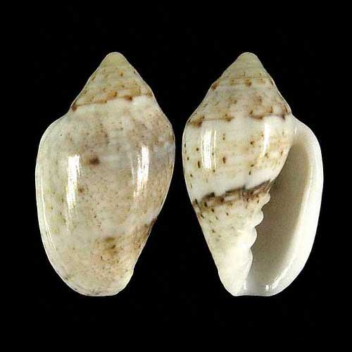 pecies: Marginella eucosmia Bartsch, 1915 Distribution: Jeffreys Bay to East London data: reef at 25m North East of Port Elizabeth, South Africa